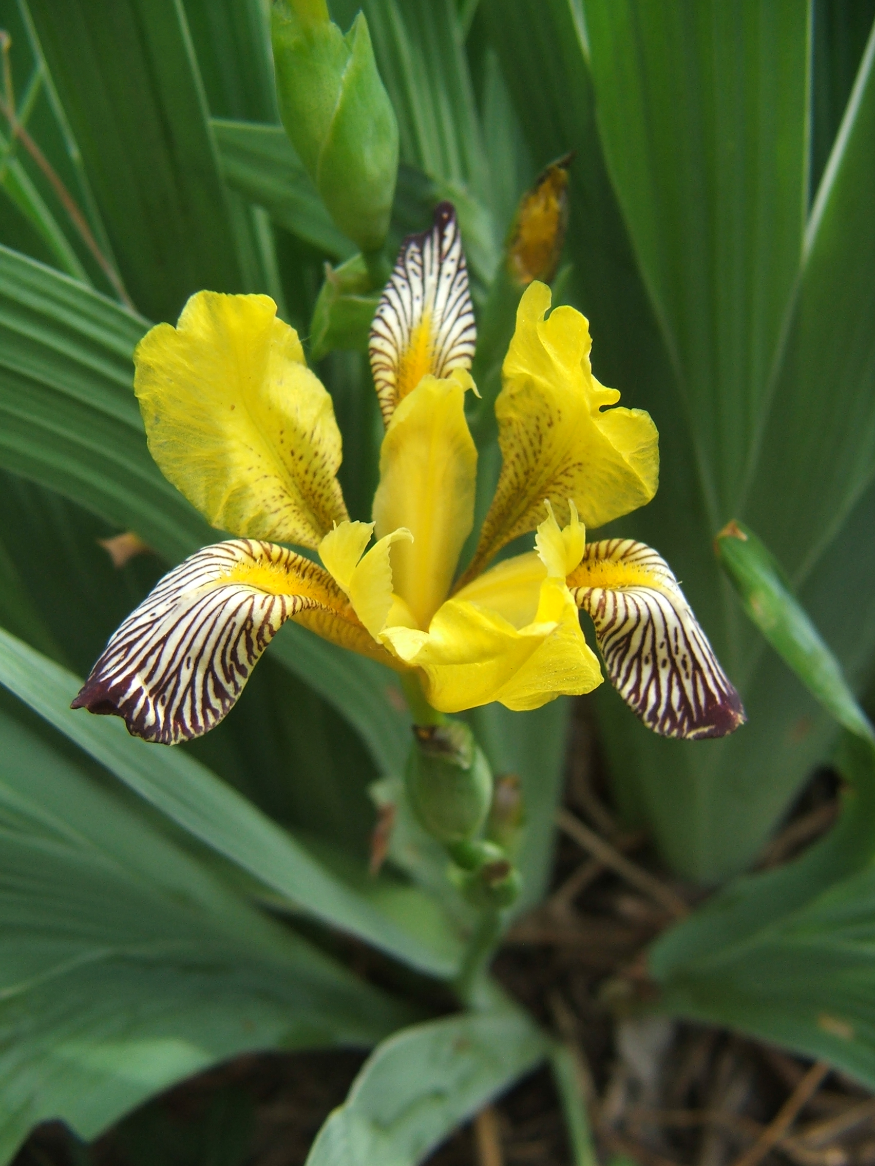 Iris_variegata L. at Naszály mountain, Vác (Hungary)